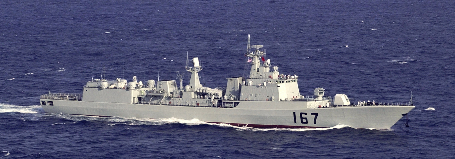 Crop of File:Chinese destroyer Shenzhen DDG167.jpg